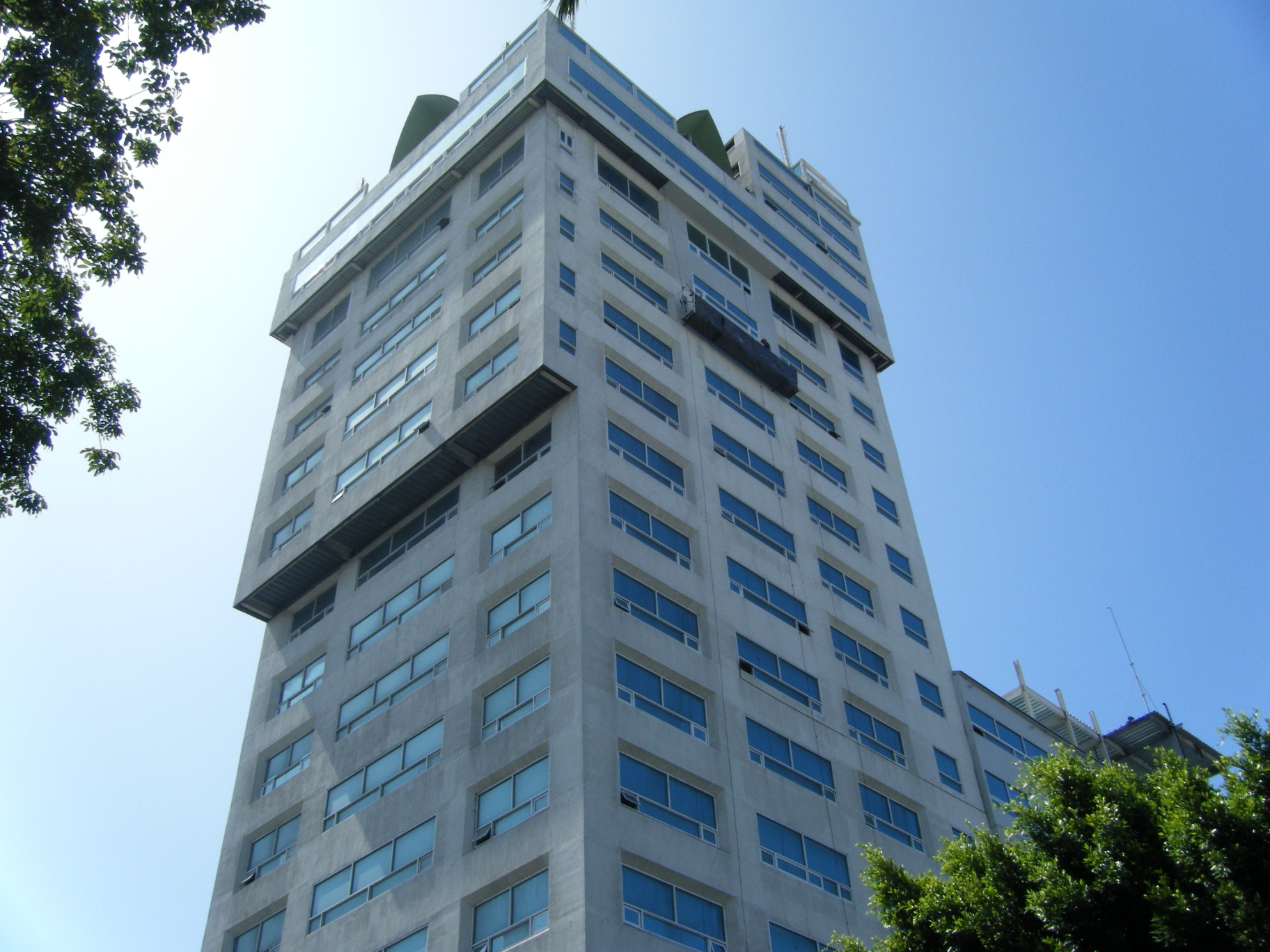 Centro Médico Excel, or Excel Medical Center, is a skyscraper in Tijuana, Mexico. One of the most prominent buildings in the city, it is the 3rd tallest building in Tijuana. Excel Medical Center is one of the most modern private hospitals in Mexico. It is equipped with some of the finest medical, diagnostic and therapeutic technologies in the world. Among Excel Hospital Staff are some of the most experienced medical professionals in North America. The medical team at the hospital is composed of such people in order to serve an international populace. History Excel Medical Center’s founding physicians are US Board Certified and practice medicine both in San Diego, California and in Mexico. Their medical specialties include Cardiology, Nephrology, Internal Medicine, and Ophthalmology. Excel Medical Center achieved inception as a world-class, state-of-the-art 20 story facility located just a few minutes south of the San Diego border. Excel Medical Center has become a destination for people seeking medical care which they cannot receive in the United States and for those seeking premium medical services at affordable prices, an increasingly common occurrence in the southern San Diego-Tijuana metropolitan area. Recent additions have turned it into a 20-story hospital and one of the largest medical centers of Northern Mexico.